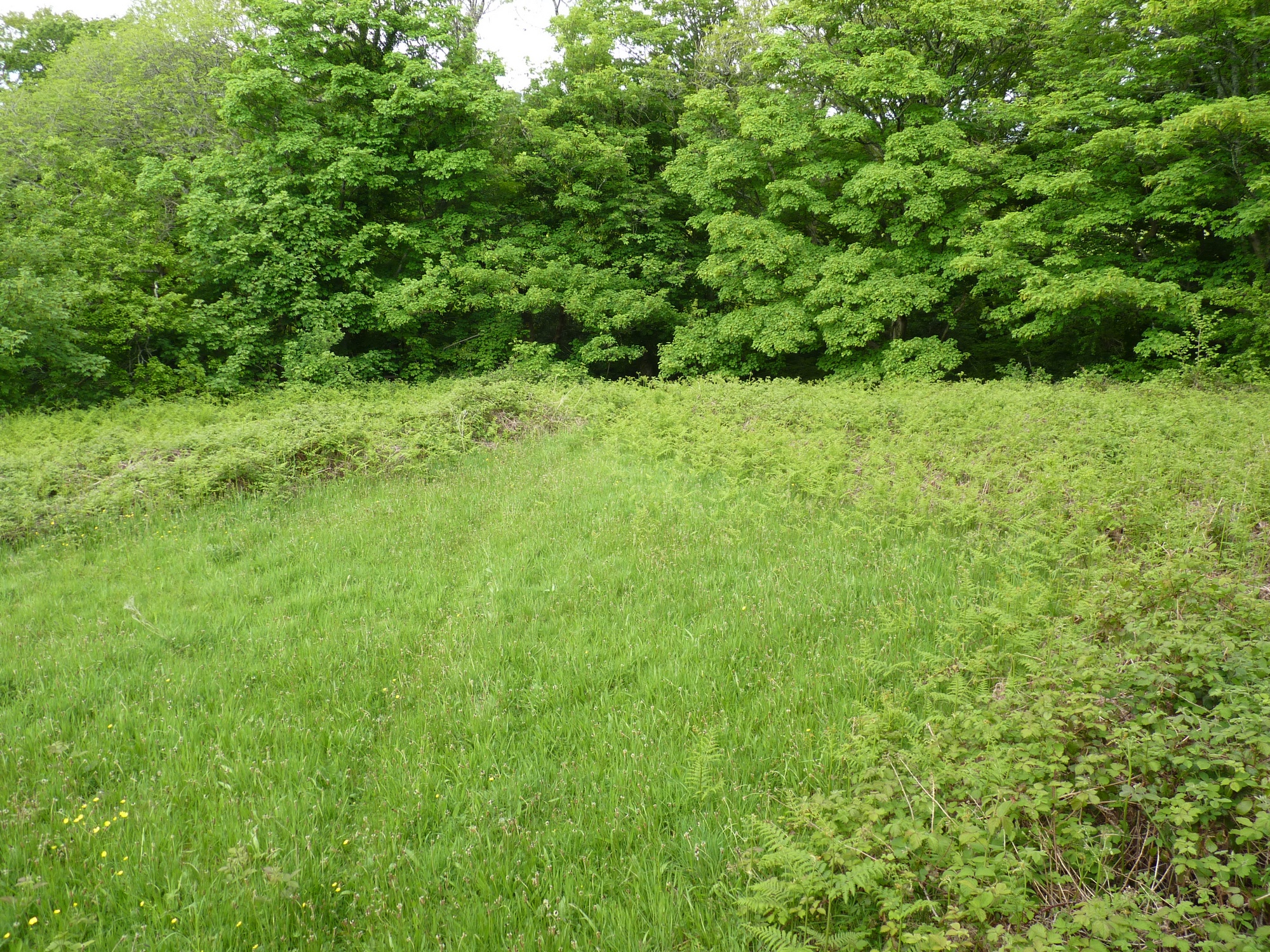 Plas Baglan is a medieval fortified site and Scheduled Monument near Port Talbot. It is probably amongst the trees beyond the clearing.